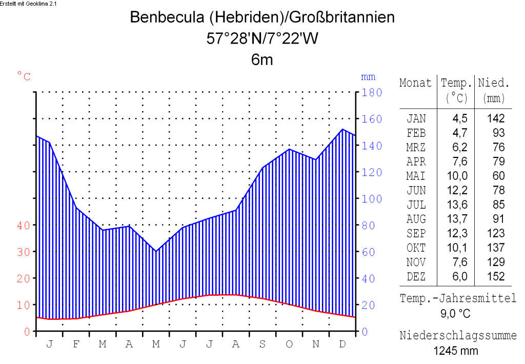 climate chart in the format by Walter and Lieth, metric, °Celsisus and millimeters, made with Geoklima 2.1